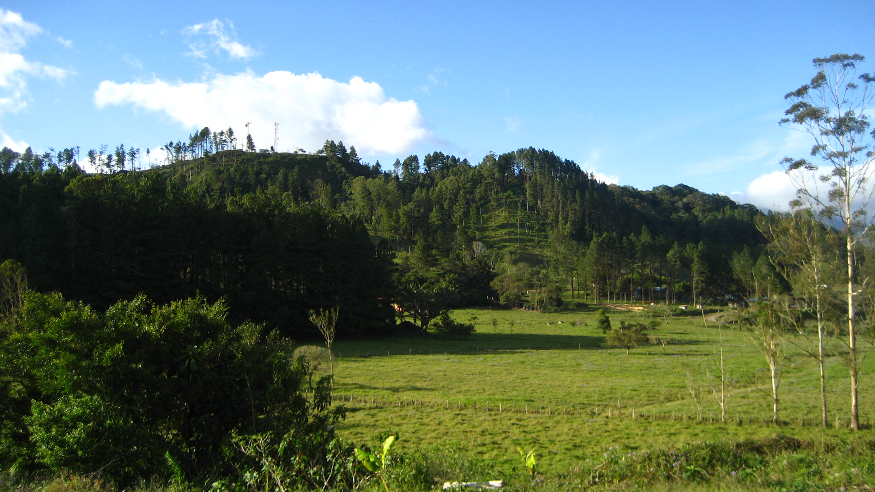 Vista panorámica de una finca lechera en Volcán